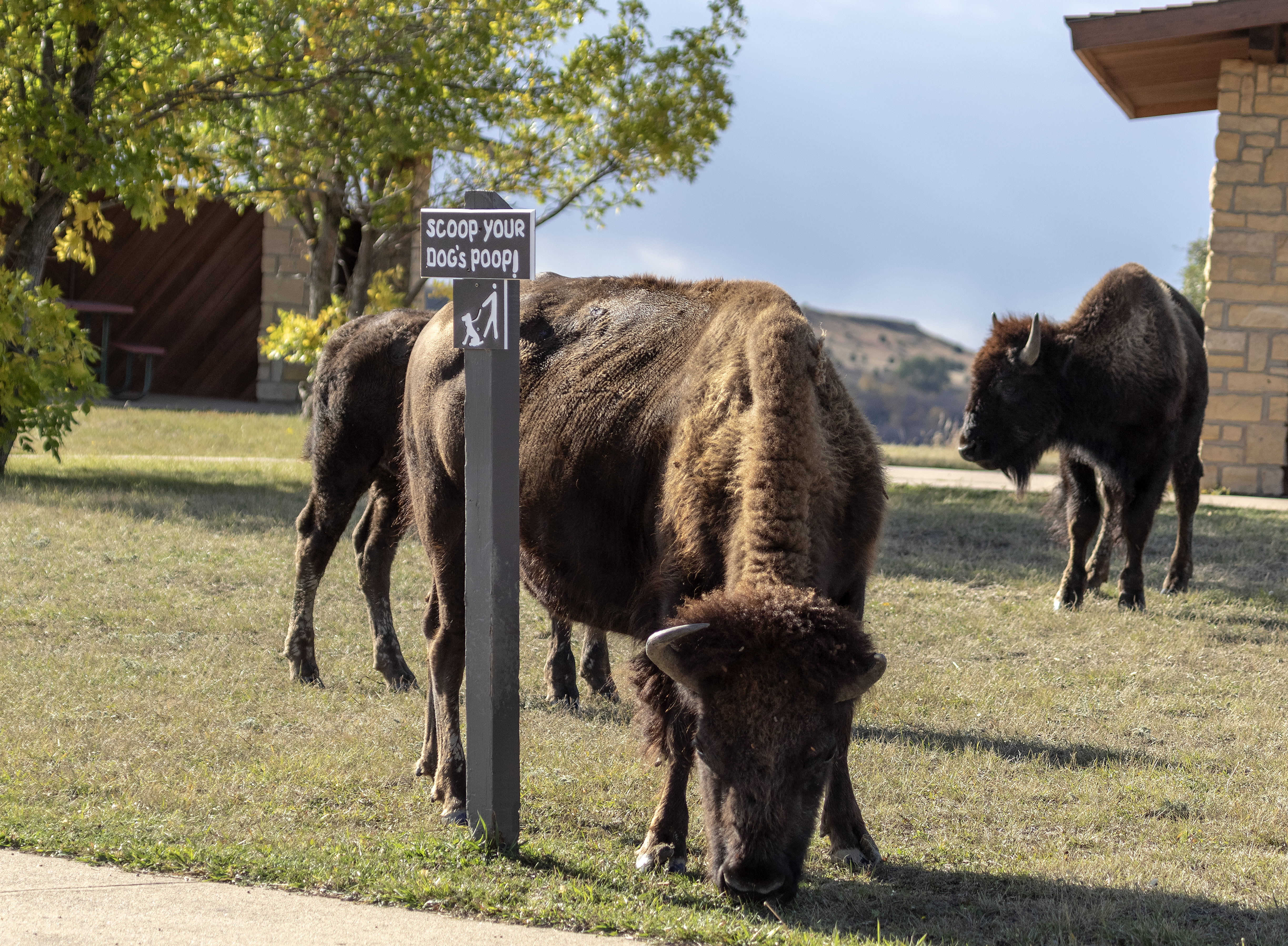 Bison and dog poo sign at the Painted Canyon Visitor Center, Theodore Roosevelt National Park, North Dakota, USA